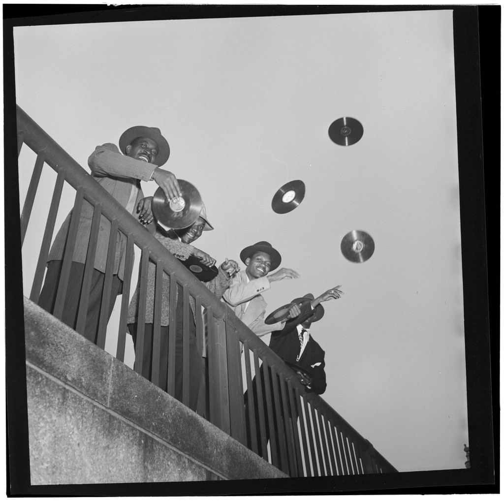 The Ravens (Musical Group)